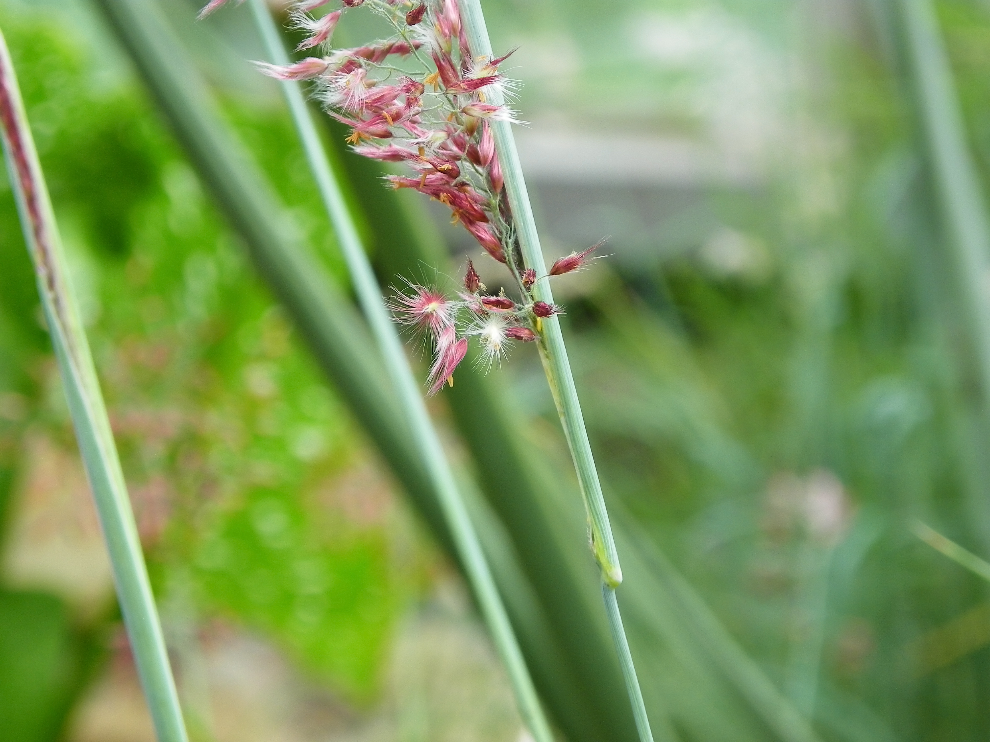 Family: Poaceae (alt. Gramineae) subfamily: Panicoideae tribe: Paniceae. Genus: Melinis Scientific name: Melinis nerviglumis (Franch.) Zizka Synonym: Rhynchelytrum nerviglume, Rhynchelytrum rhodesianum, Rhynchelytrum setifolium, Tricholaena setifolia Common name: Ruby Grass, Bristle-leaved Redtop